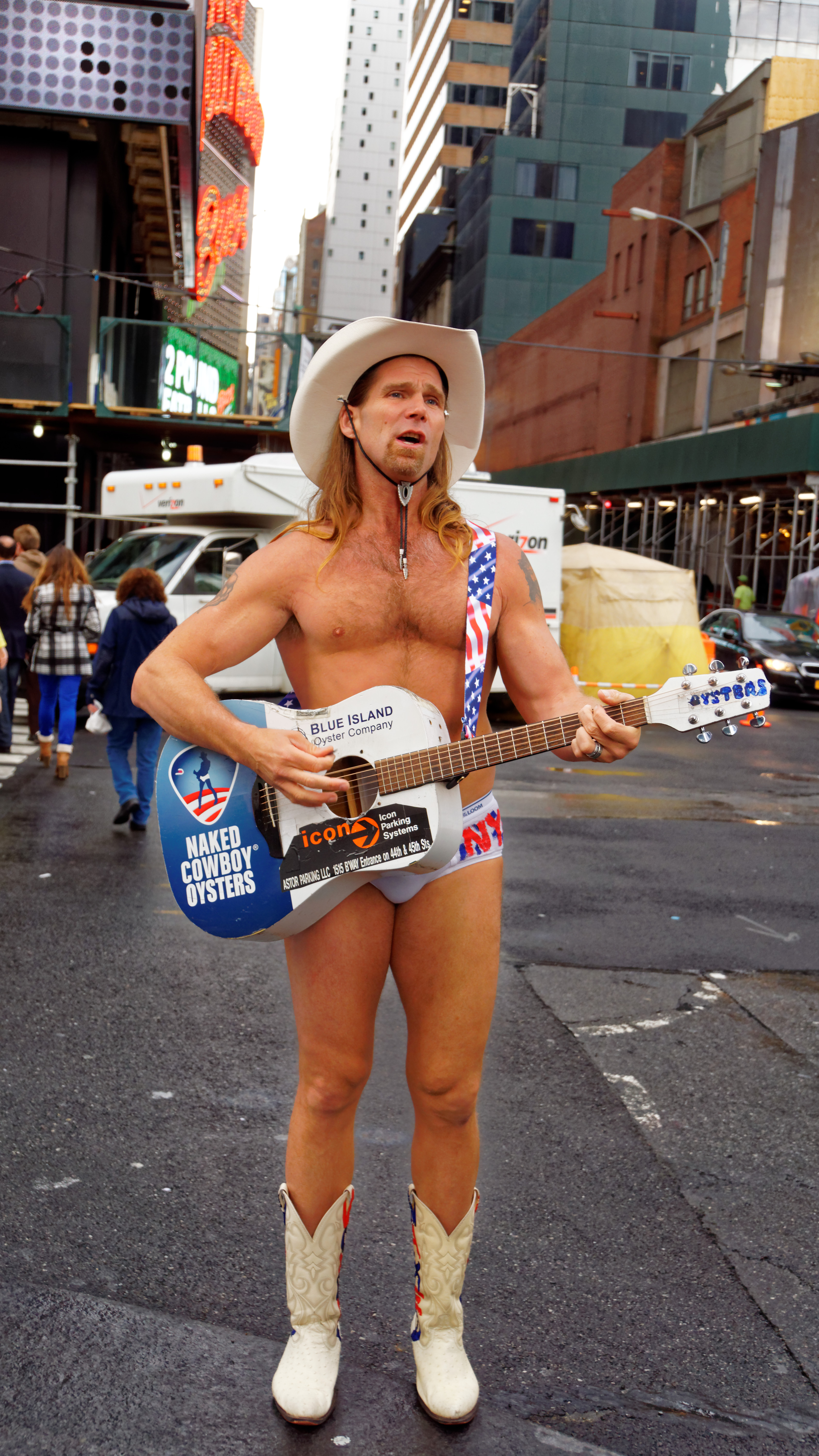 WWE WrestleMania XXXII - Miami - Dallas - New York - New-York Divers - Day 3 Photos Divers de New-York ( Our Tour in Miami, Dallas and New-York for Wrestlemania 32 from Dallas )